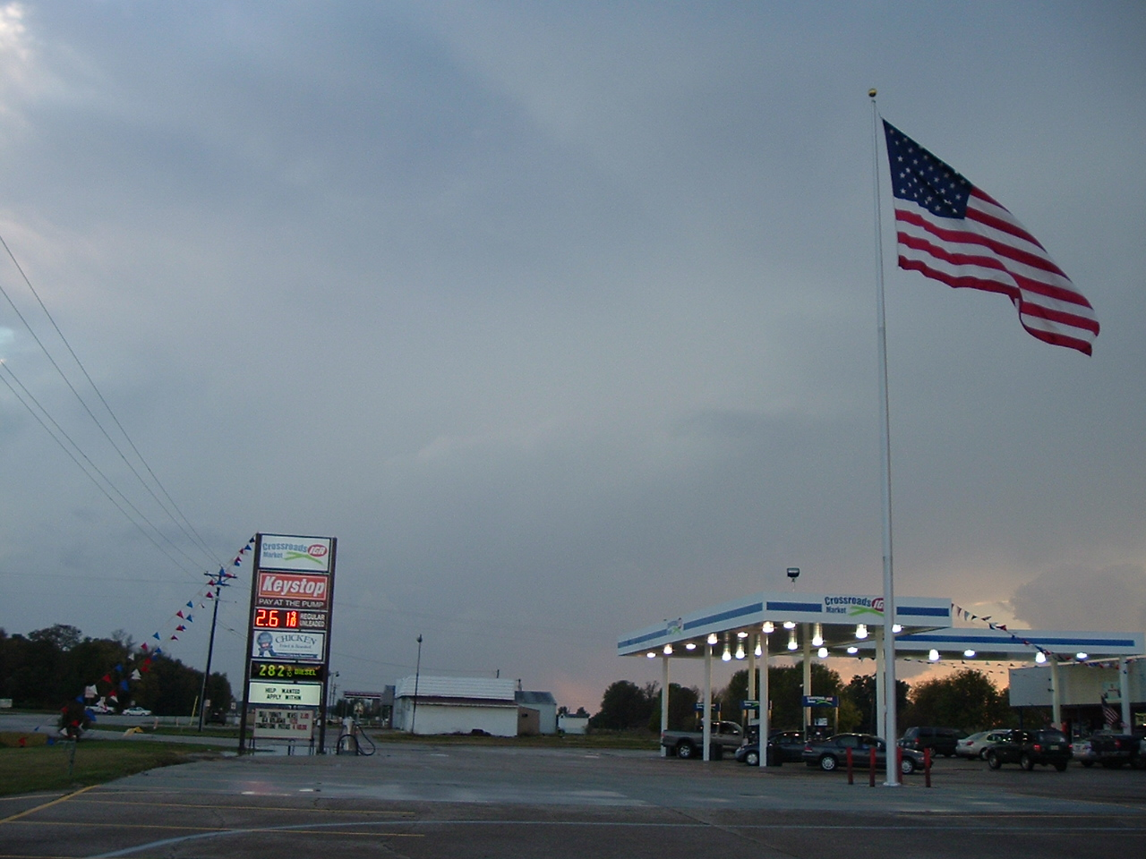 Tornadic thuderstorm approaching Owensboro KY Taken by uploader, all rights released